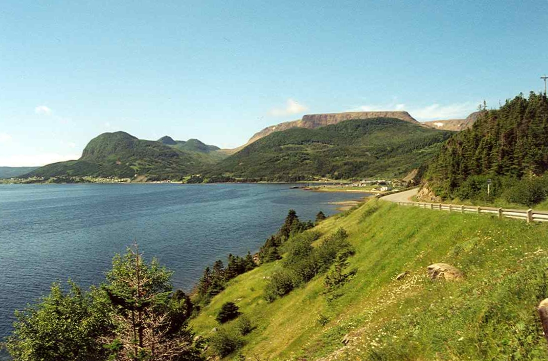 The Tablelands above Winterhouse Brook, Newfoundland. Newfoundland and Labrador Route 431